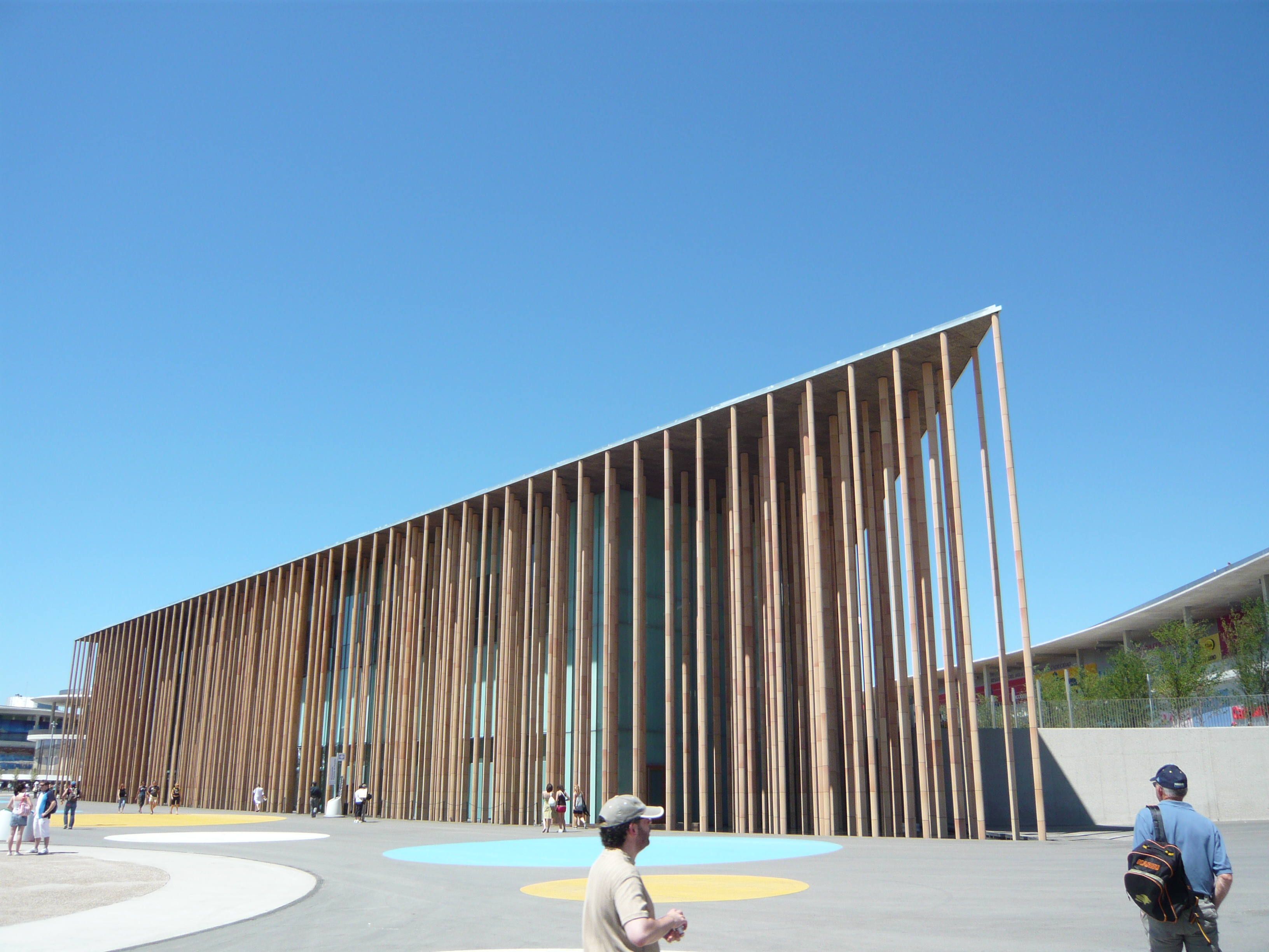 Spanish Pavilion of The International Exposition of Zaragoza 2008